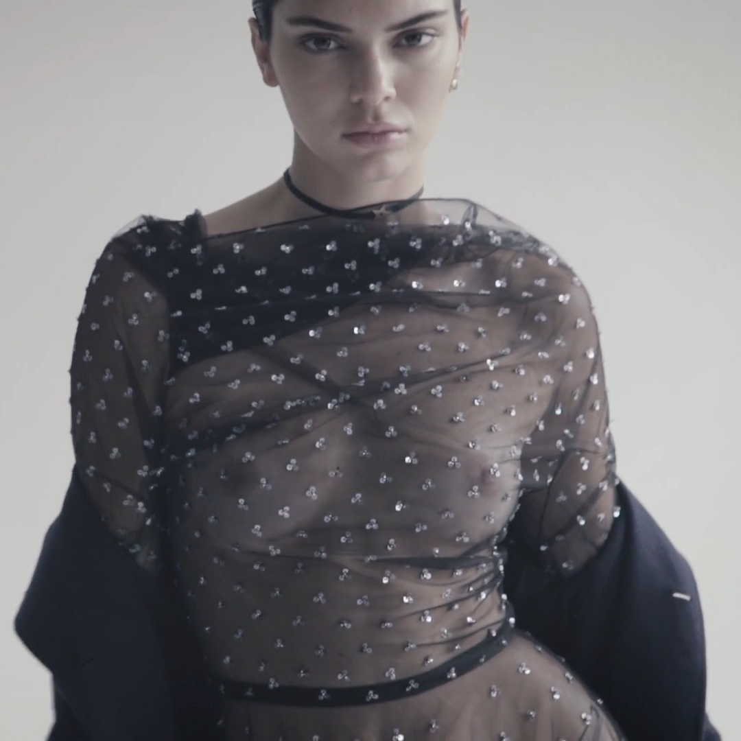 An intimate portarit of the Muse Kendall Jenner for the Magazine WKorea in New York